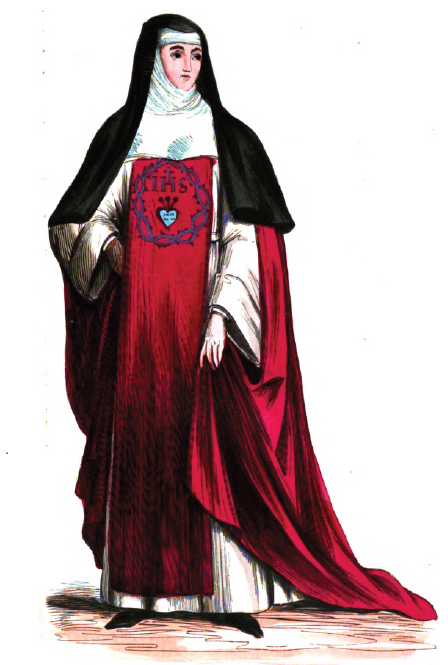 Nun of the Incarnate Word and Blessed Sacrament, from L. Cibrario, Descrizione storica degli ordini religiosi, vol. II, Turin 1843, pp. 32-33.